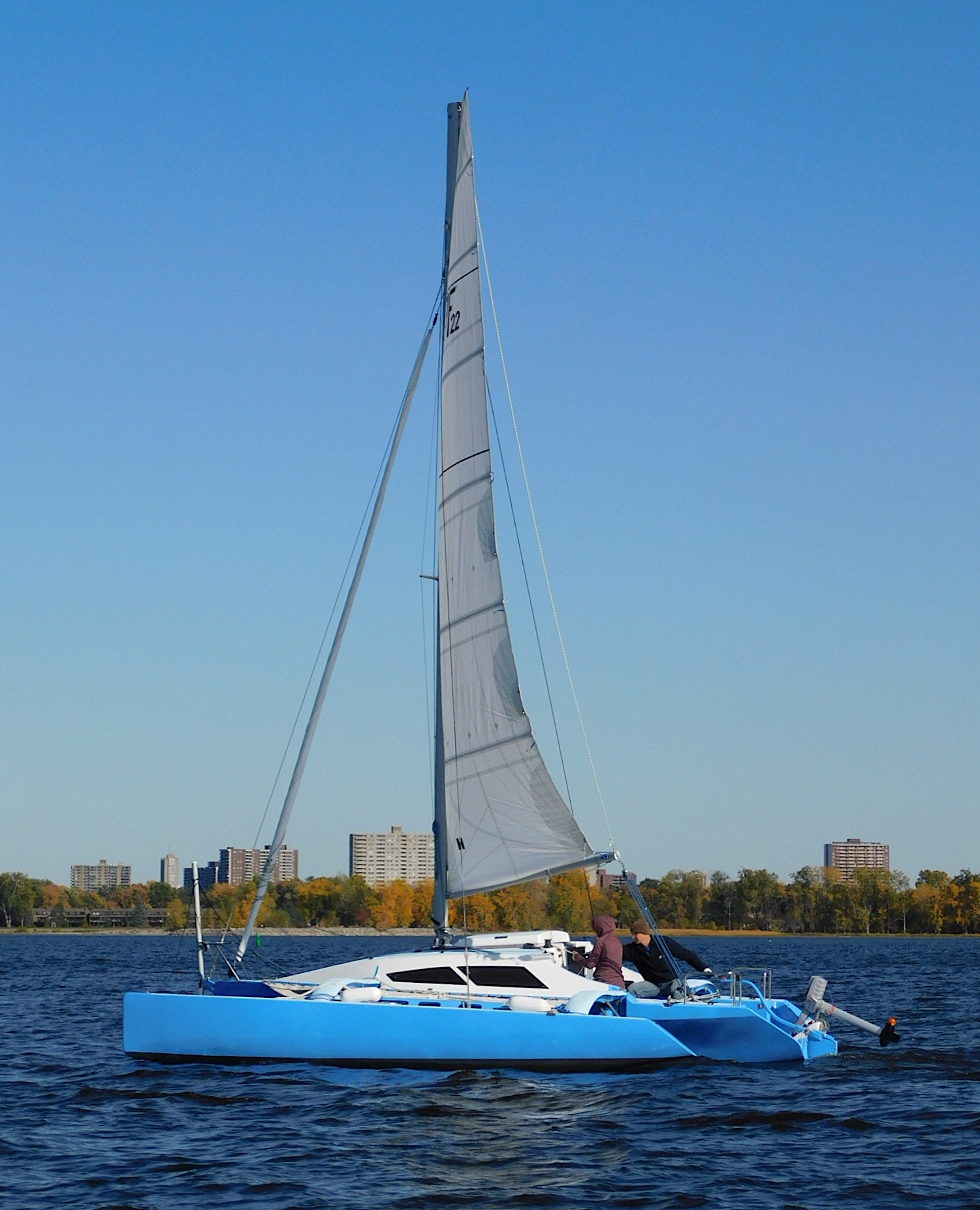 A Farrier F-22A trimaran sailboat.